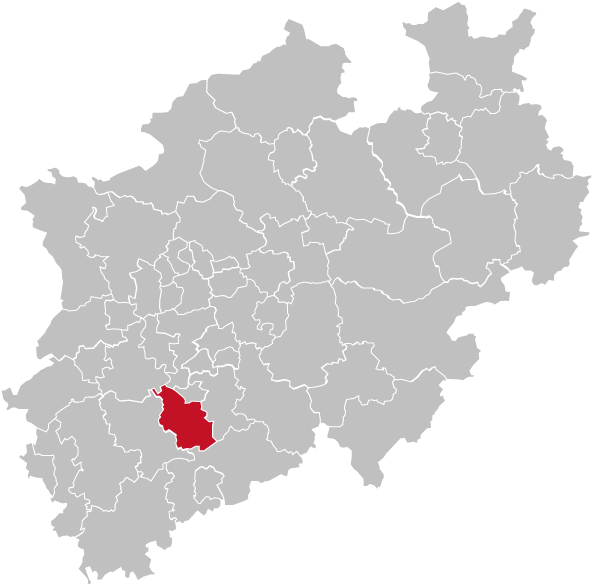 Map of Köln, a district-free municiplaity of Northrhine-Westphalia (NRW), Germany. Red/Grey colors match the color scheme of Germany maps and information boxes in German Wikipedia. Town is highlighted in red. Former version of map was based upon Image:North rhine w template.png that displayed some districts in the Cologne/Bonn area not correctly.This new version is based upon template